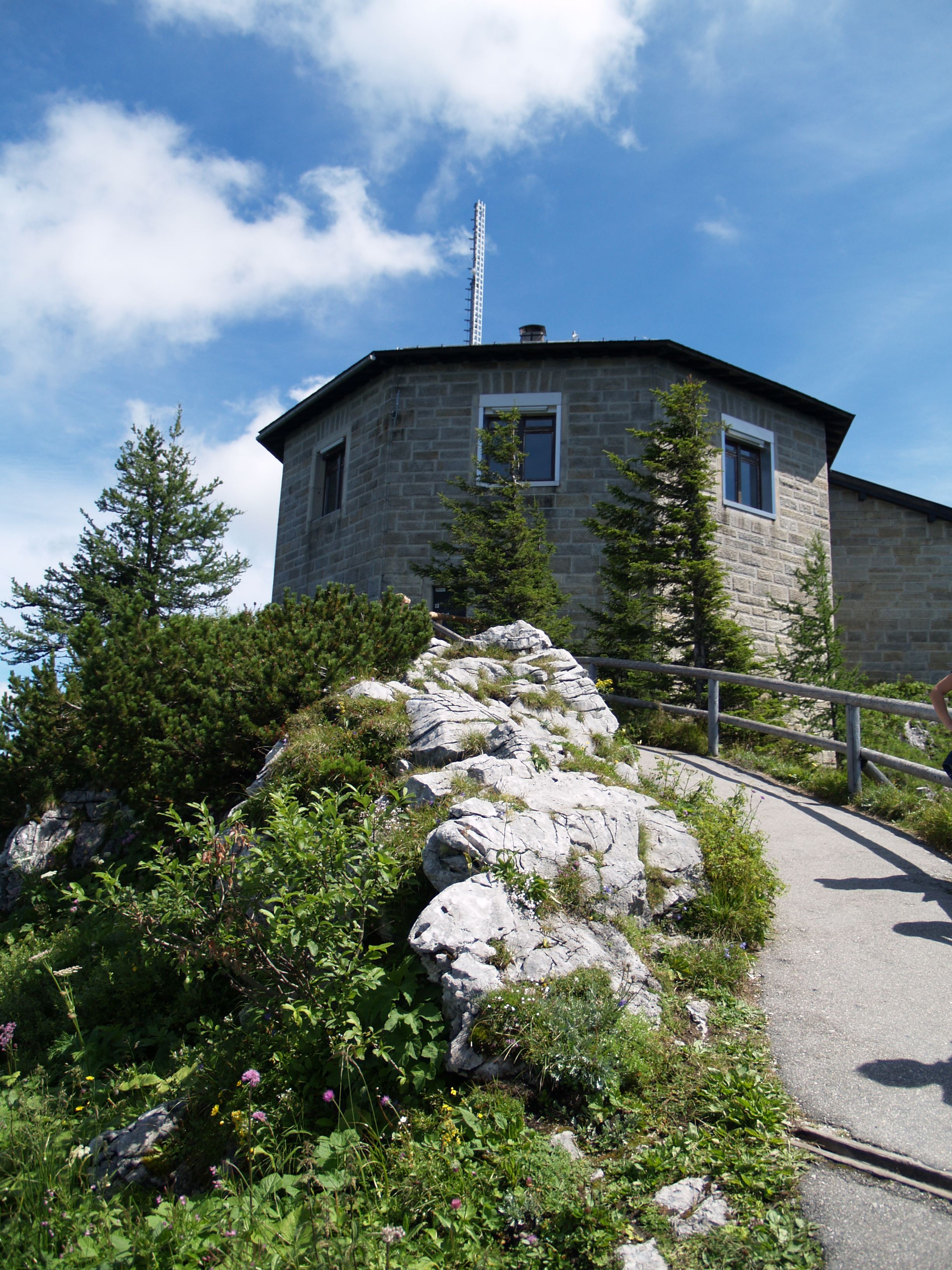 Kehlsteinhaus Frontside